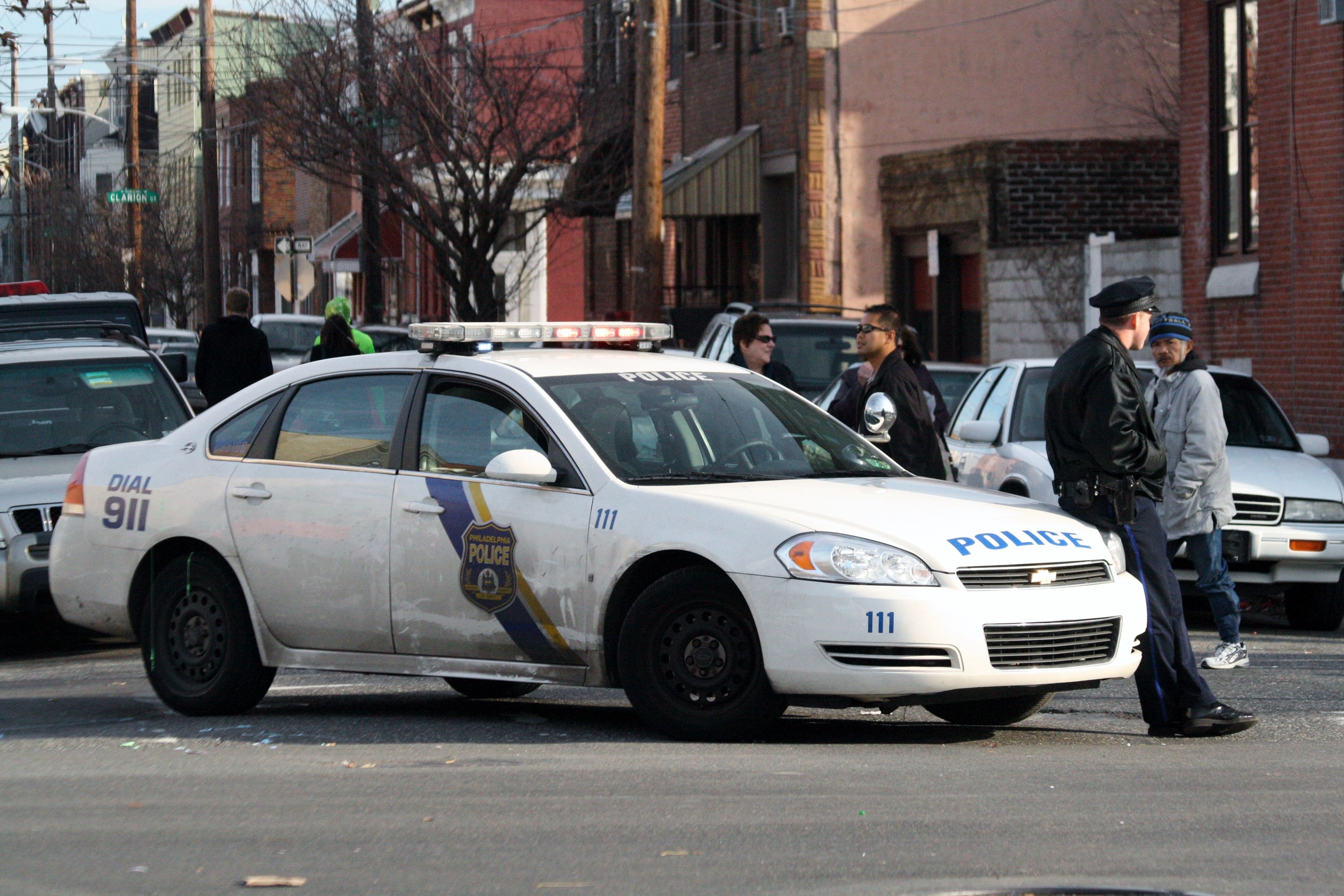 Philadelphia Police